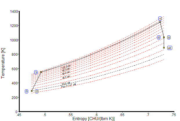 Burbank Source:self using GasTurb software Typical TS diagram